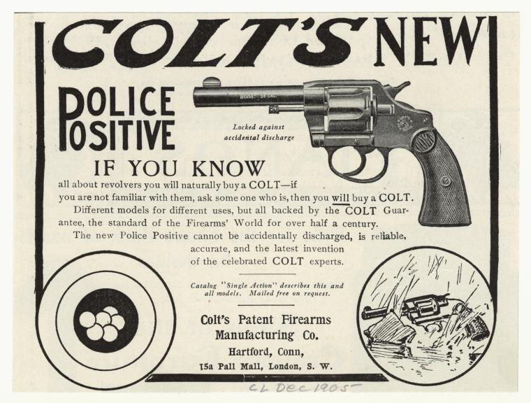 TITLE: Colt's new Police Positive.